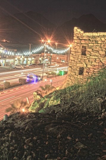 Bareq city